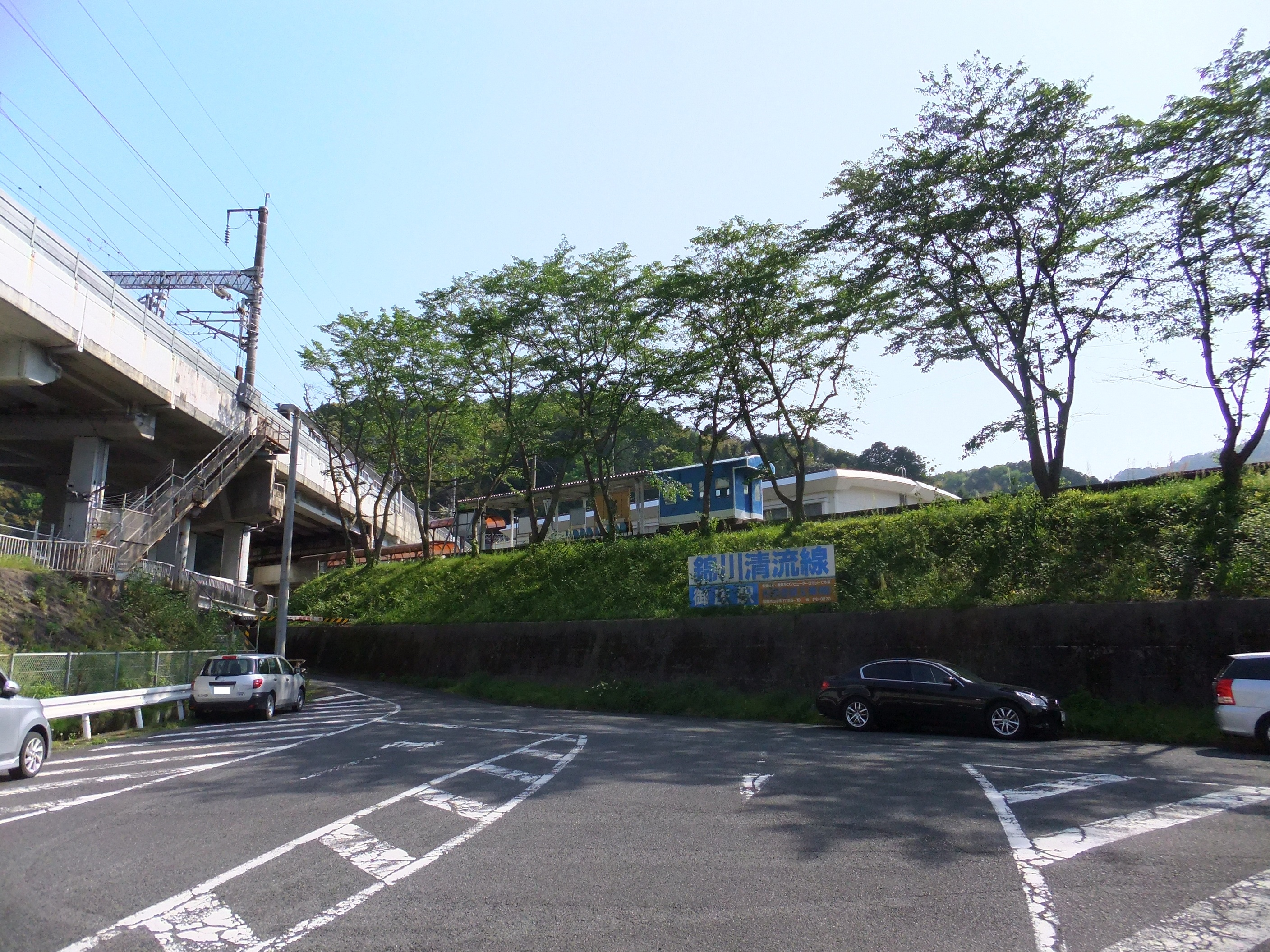 Misho Station (now Seiryu-Shin-Iwakuni Station)